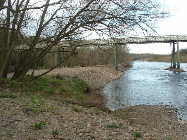 Ovingham Bridge in Northumberland, England. This single track road bridge with a separate footway was built by public subscription in 1883 after the drowning of 17 year old Matthew Hall in 1882. The foundations of the bridge have recently been reinforced.